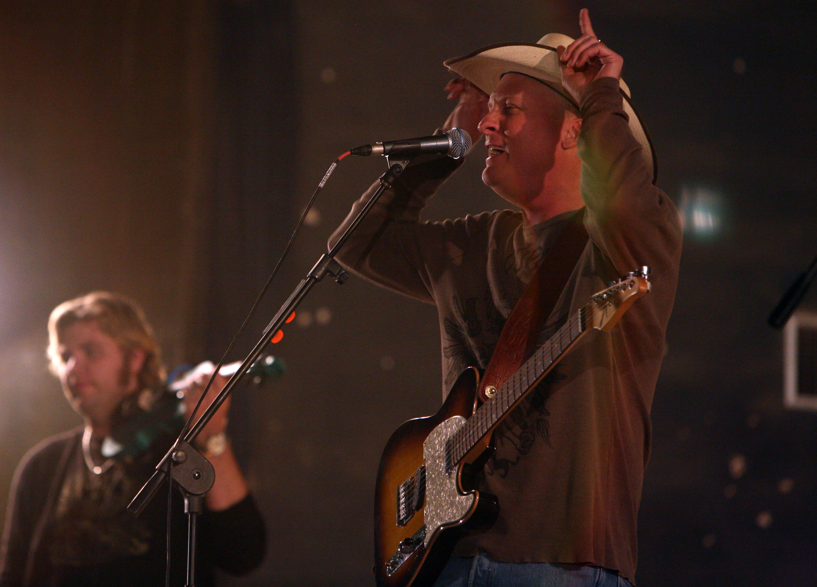 AL ASAD, Iraq- Kevin Fowler performs "Speak of the Devil," during a concert hosted by Armed Forces Entertainment March 24. Fowler and Charlie Robison performed together overseas for deployed service members during a two week tour.